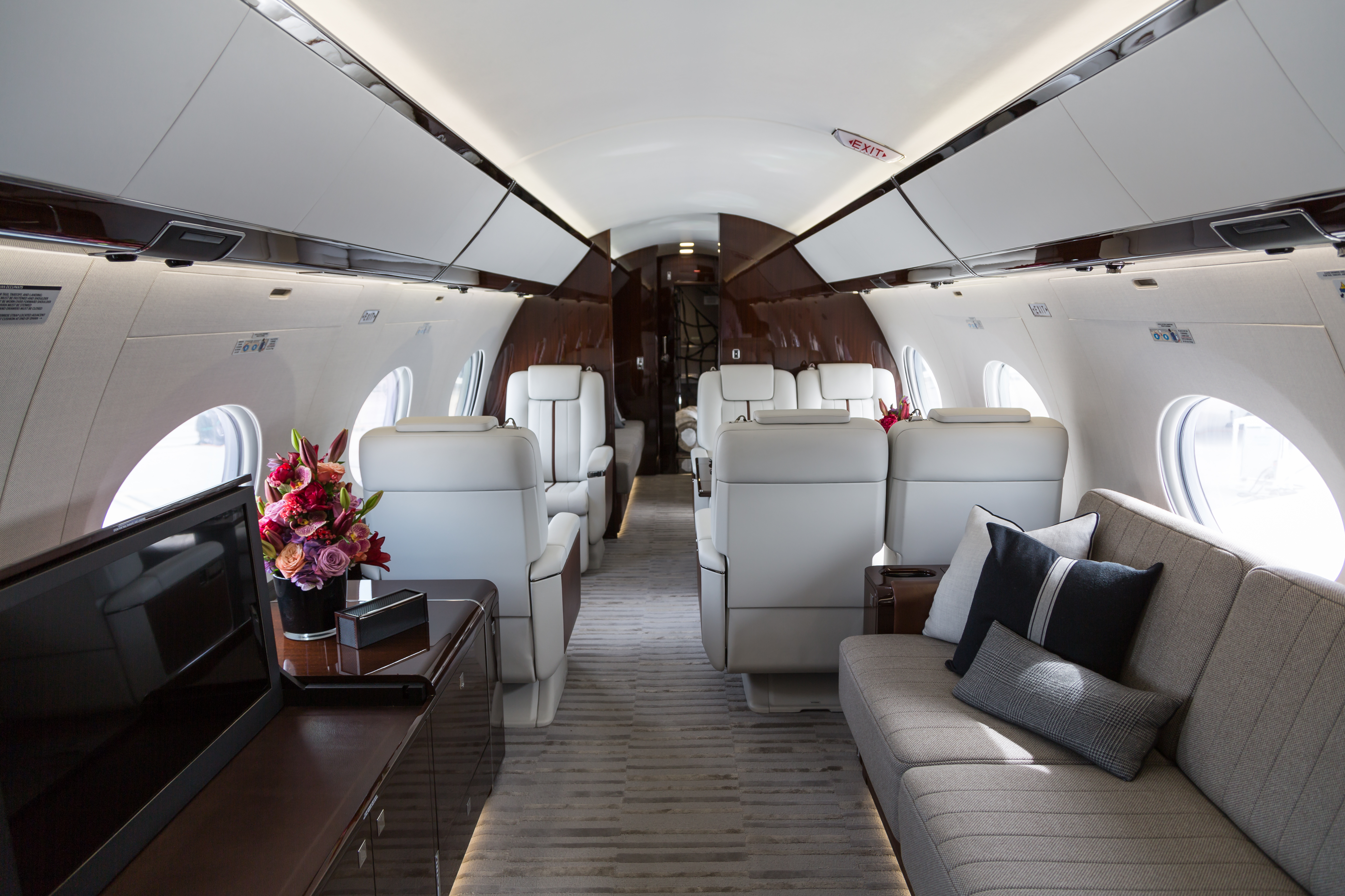 Gulfstream G650ER, EBACE 2018